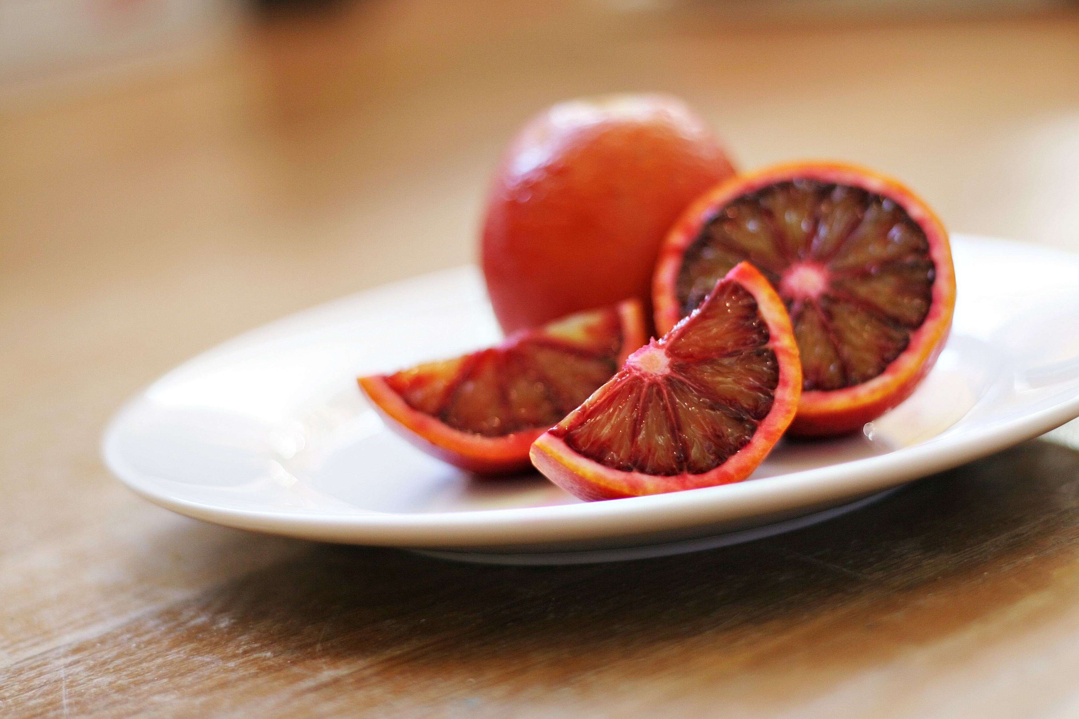 Blood oranges